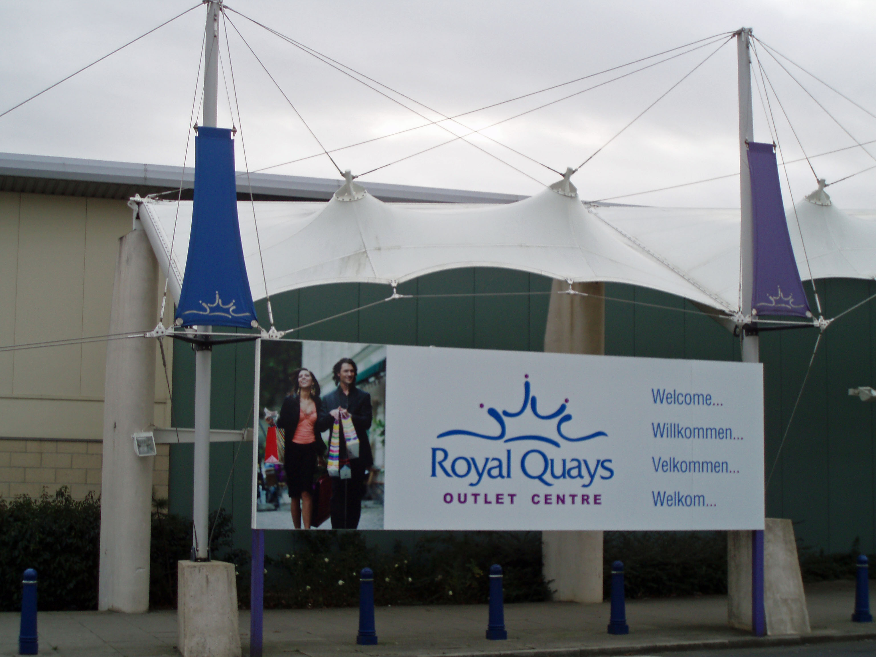 Royal Quays Retail Park, North Tyneside, England